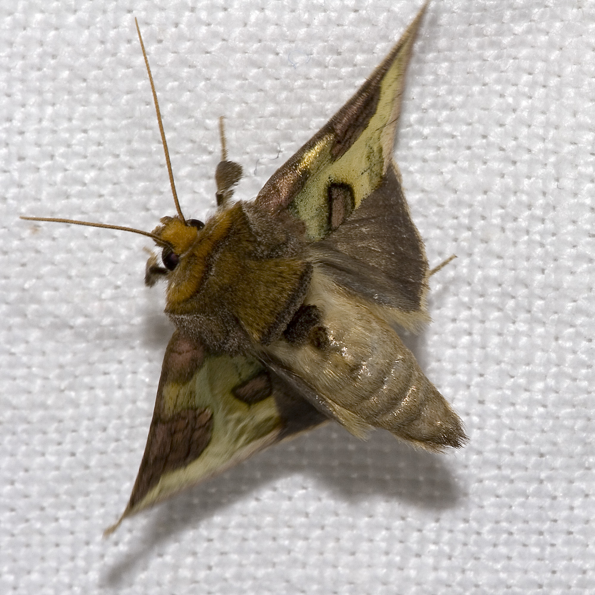 Tutts Burnished Brass Mora